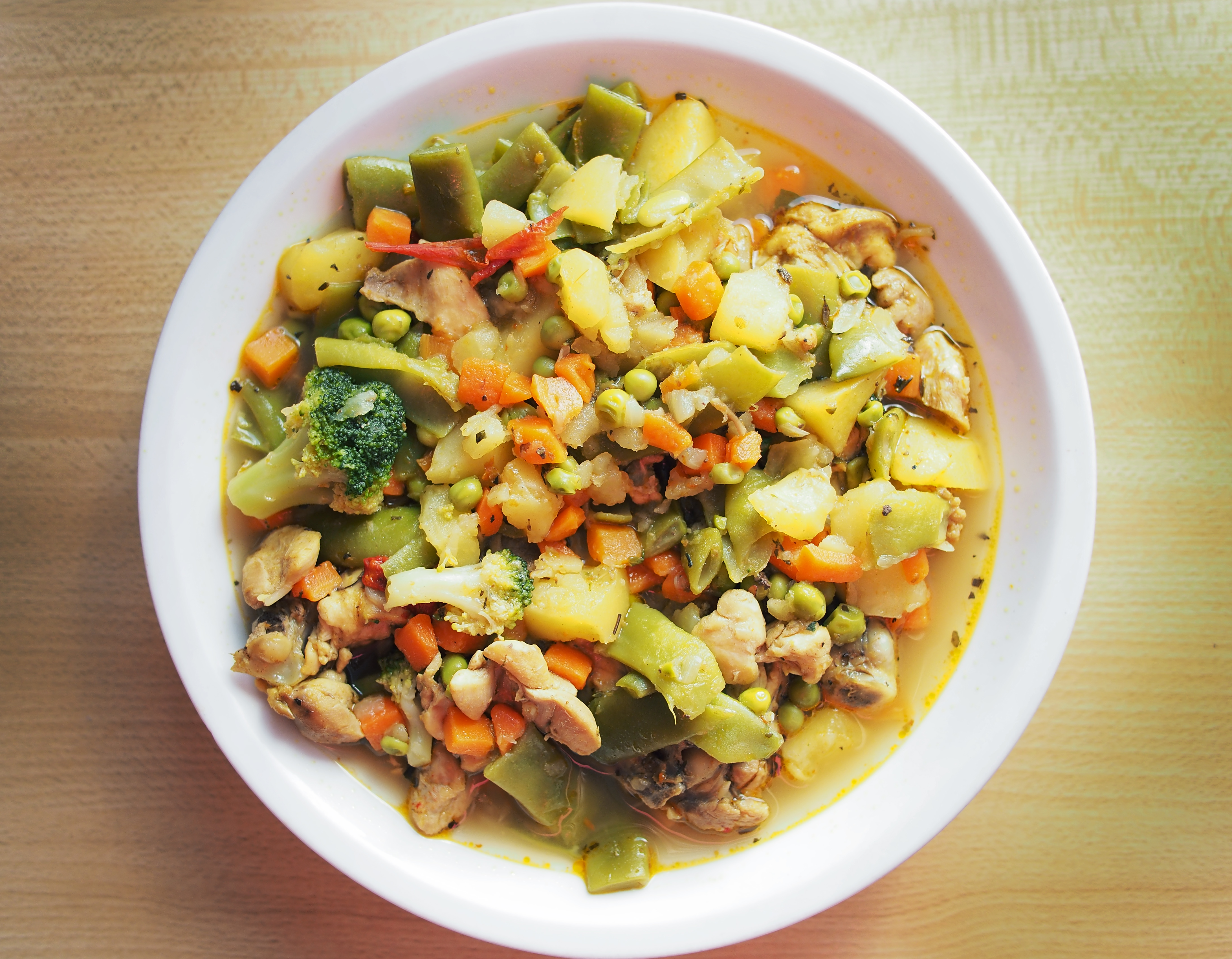 Bograč (Turkish: bogrács) This photograph was taken with a Olympus E-P5.